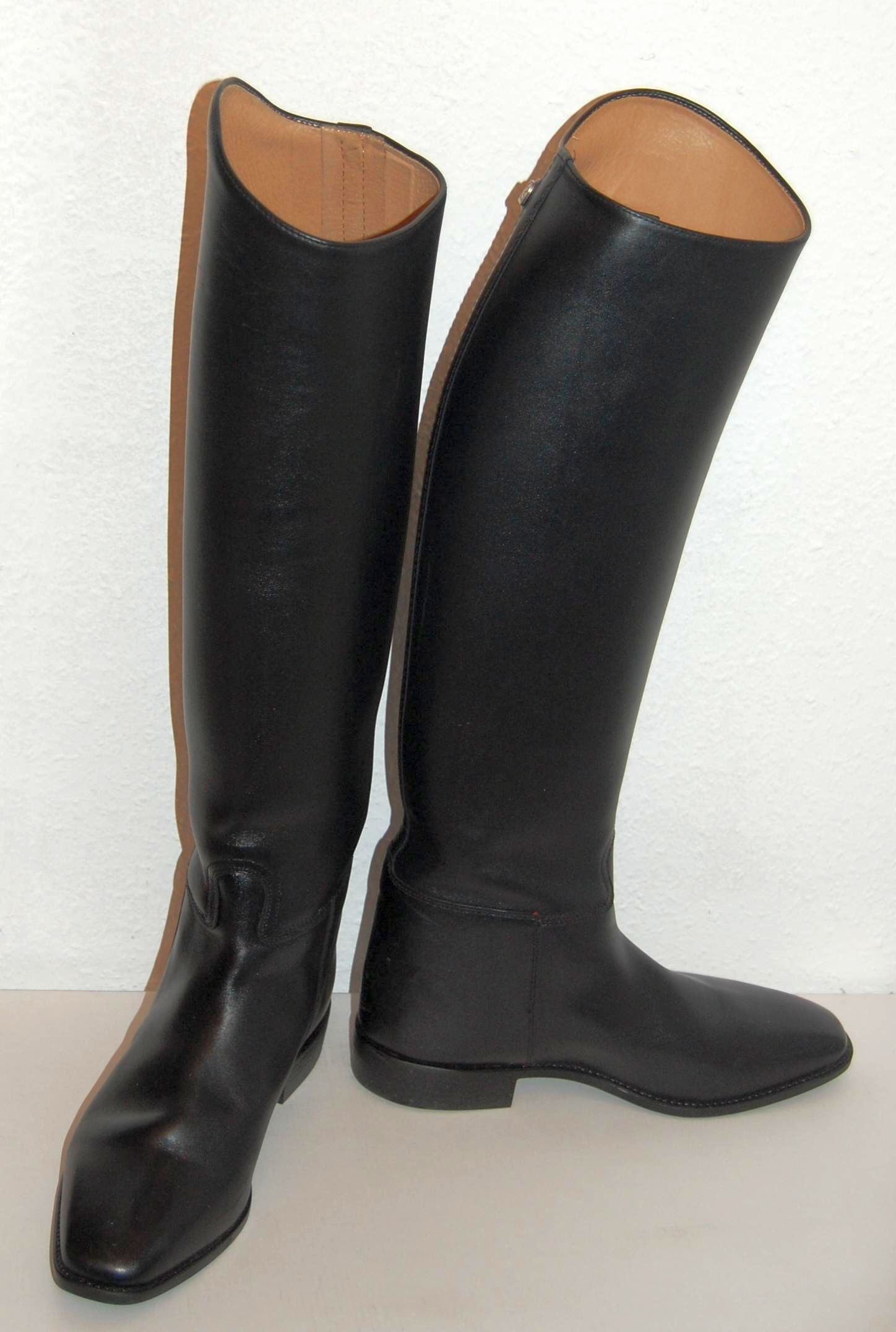 Dressage boots (Cavallo Winner)